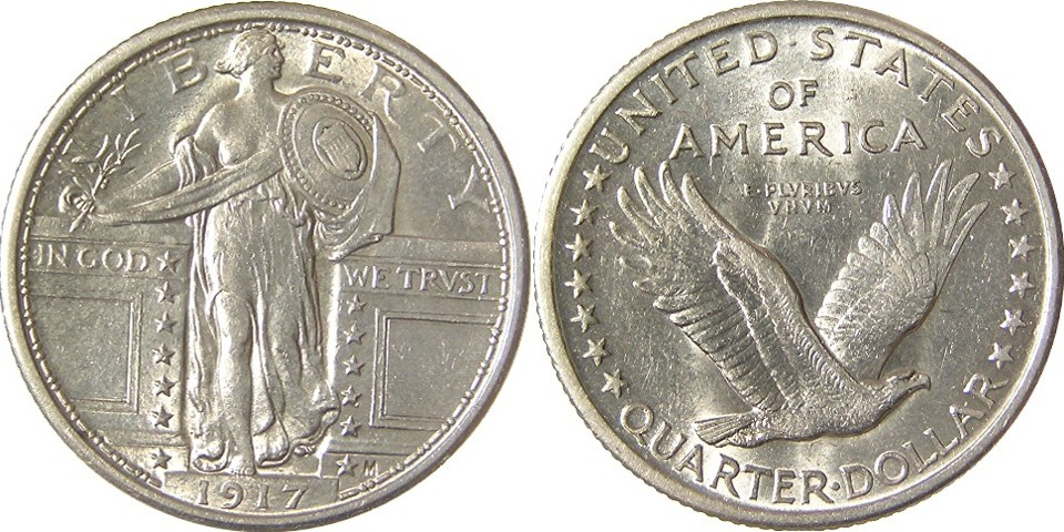 Obverse and Reverse of a Standing Liberty Quarter, issued from 1916 to 1930 by the United States Mint. Design by Hermon Atkins MacNeil. The particular coin depicted is in an AU58 Anacs slab.